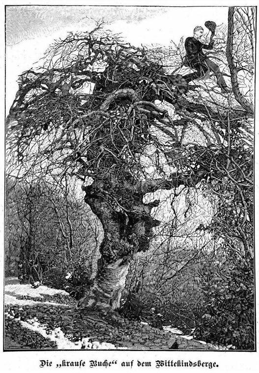 "Krause Buche", Dwarf Beech near Bad Oeynhausen in Germany, often published, first in 1890 in a newspaper in Bad Oeynhausen, artist unknown.